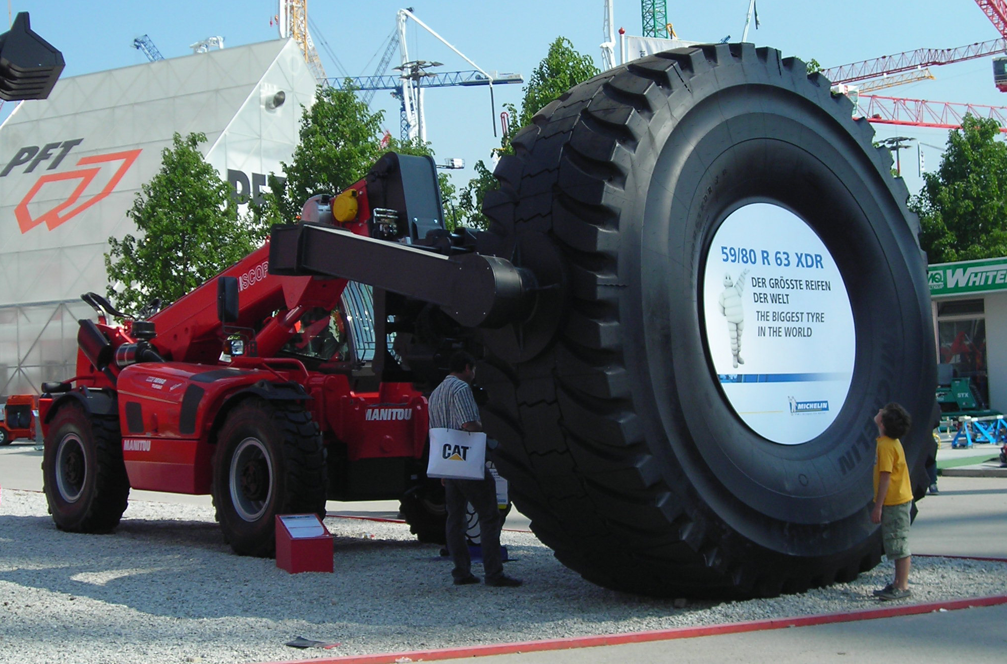 Michelin 59/80 R 63 XDR, the biggest automotive wheel of the world as of 2007, displayed at bauma fair Munich in April 2007.